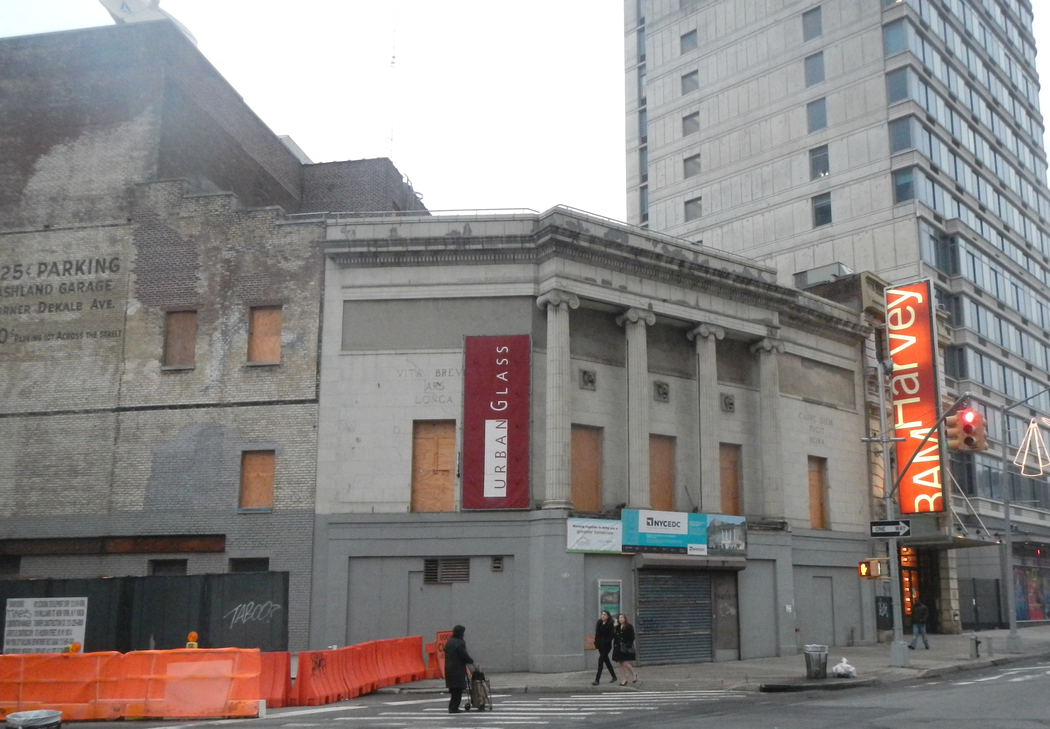 Looking east across Fulton Street and Rockwell Place at Majestic Theatre, later BAM Harvey Theatre, latest Urban Glass studio, 651 Fulton St. on a cloudy day.